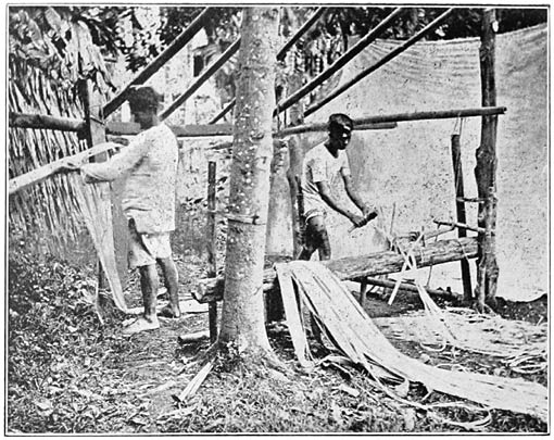 Vicols (Bikolanos) preparing Hemp -Drawing out the fibre (c. 1900, Philippines)